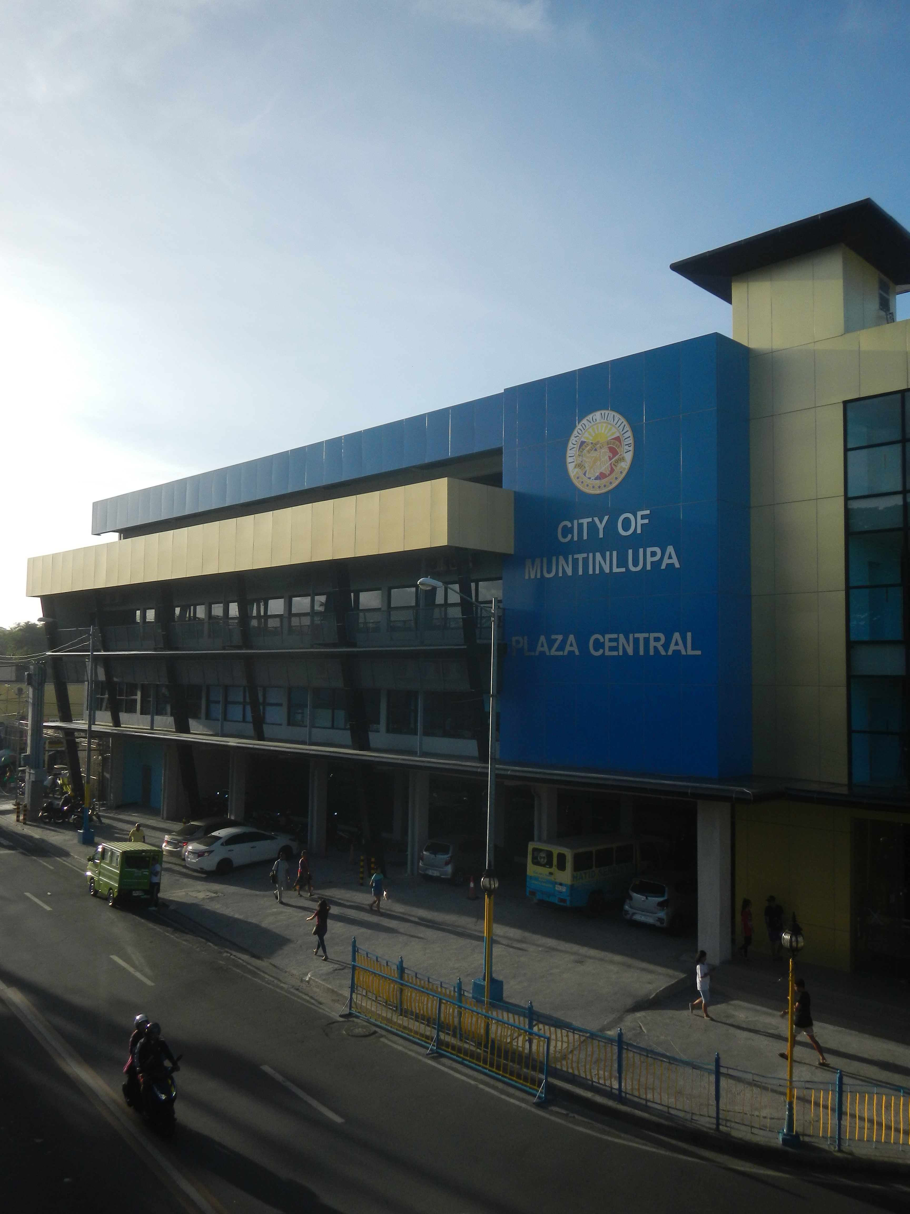 Poblacion Footbridge, Plaza Central and New Public Market, Muntinlupa City Proper National Road (Alabang, Bayanan, Putatan and Poblacion), Muntinlupa City Barangays Sucat 14°27'19"N 121°2'51"E Alabang 14°24'59"N 121°2'33"E Bayanan 14°24'28"N 121°2'44"E Putatan 14°23'50"N 121°2'14"E Poblacion 14°22'48"N 121°1'53"E Buli 14°26'37"N 121°2'54"E City of Muntinlupa Alabang AyalaAlabang Poblacion, Muntinlupa New Bilibid Prison Bureau of Corrections (Philippines) Putatan, Muntinlupa Tunasan Philippine highway network (Note: Judge Florentino Floro, the owner, to repeat, Donor Florentino Floro of all these photos hereby donate gratuitously, freely and unconditionally Judge Floro all these photos to and for Wikimedia Commons, exclusively, for public use of the public domain, and again without any condition whatsoever).